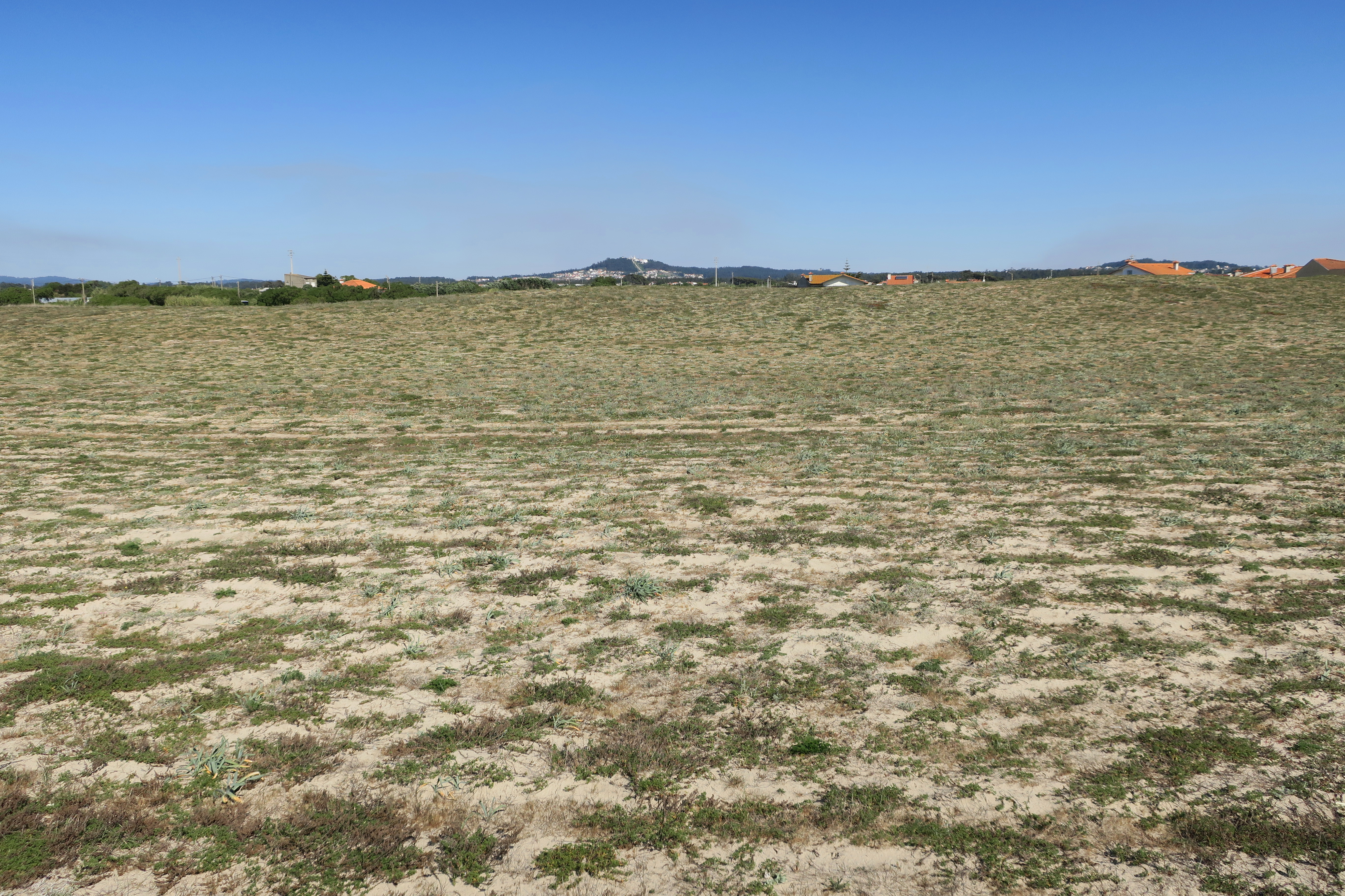 the remaning Grey Dune, Aguçadoura, Povoa de Varzim